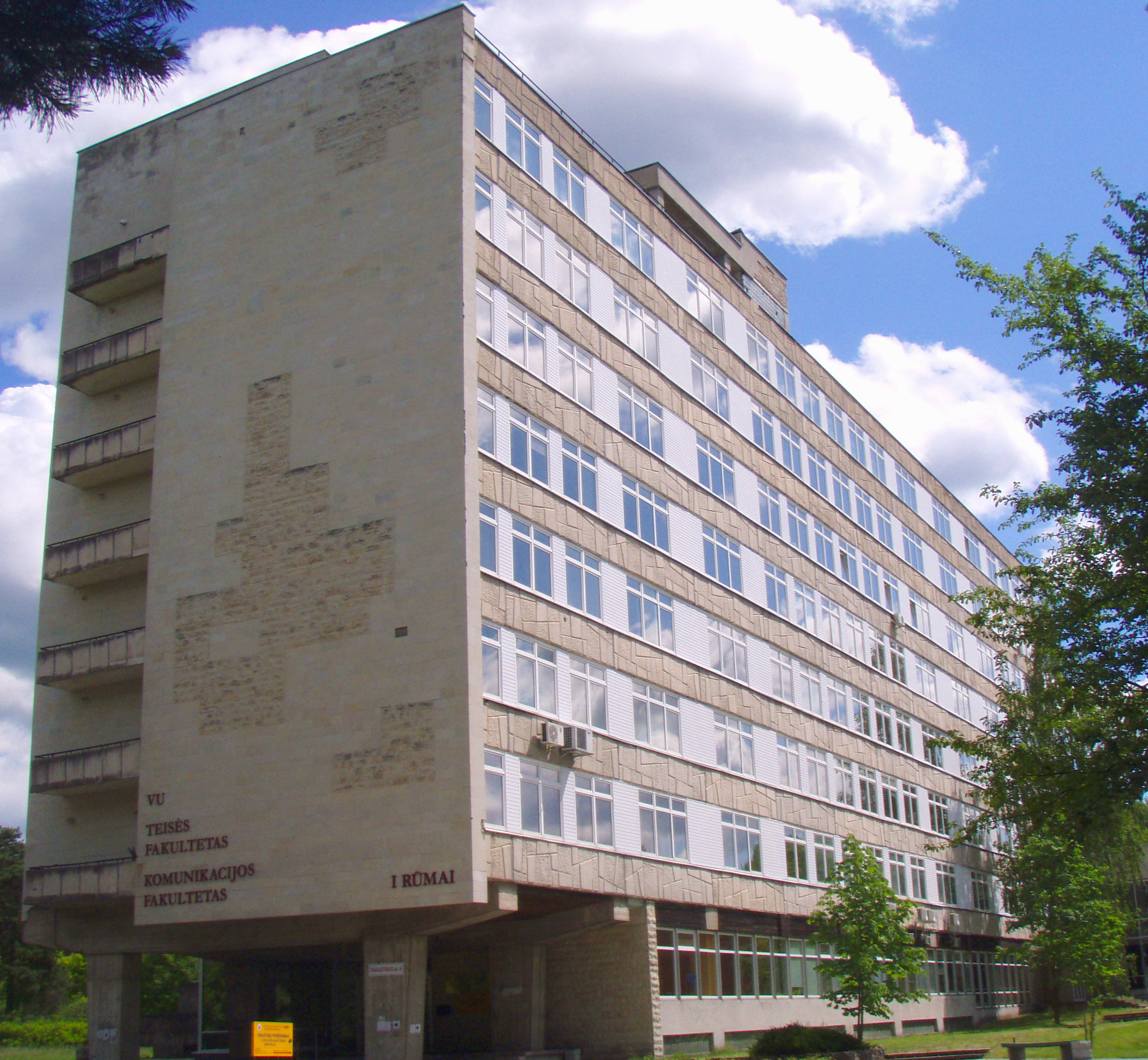 Vilnius university, law and communication faculties